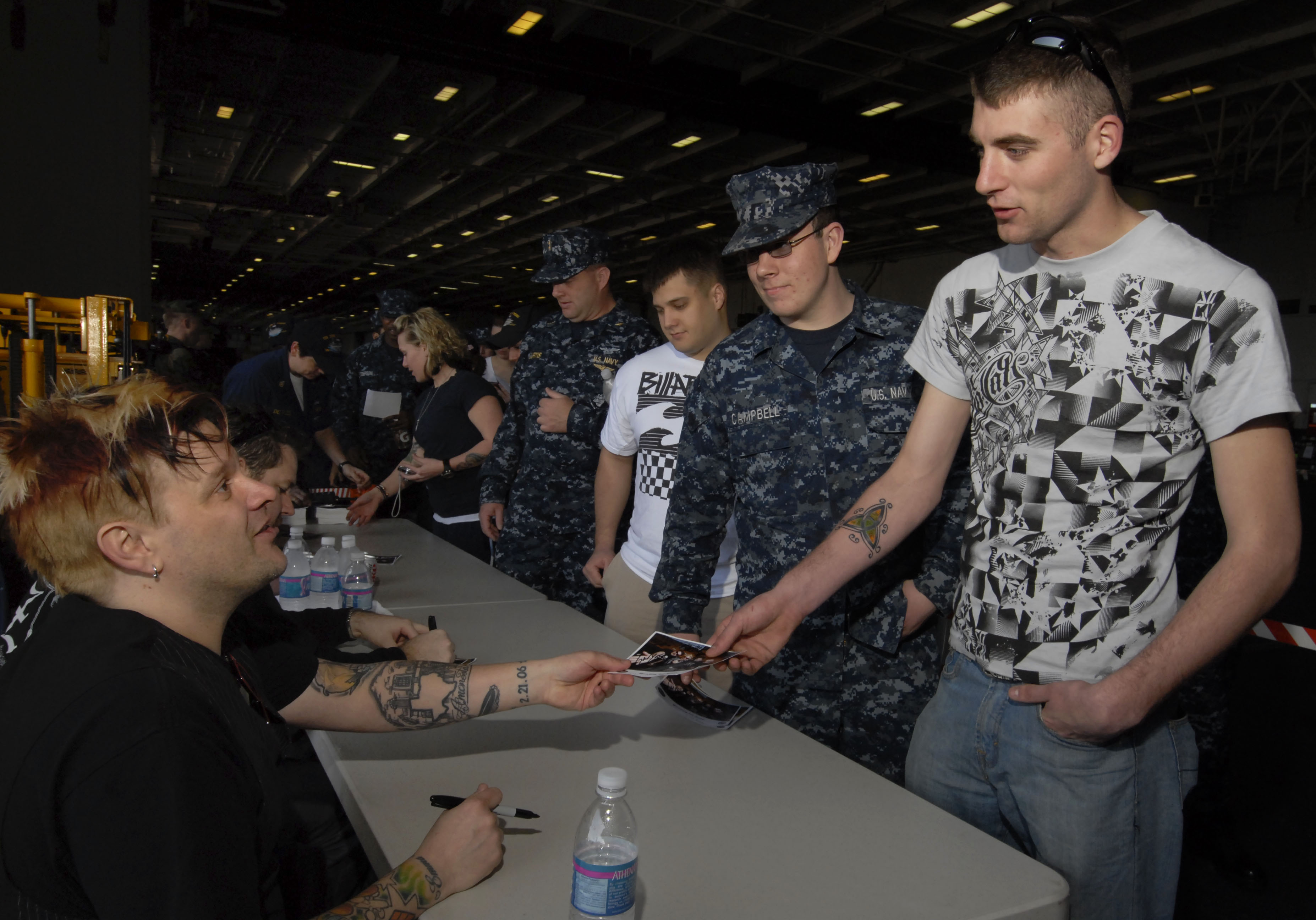 SAN DIEGO (March 23, 2010) Bowling for Soup members sign autographs for Sailors in the hangar bay aboard the Nimitz-class aircraft carrier USS John C. Stennis (CVN 74). John C. Stennis is in San Diego after completing fleet replacement squadron carrier qualifications off the cost of Southern California. (U.S. Navy photo by Mass Communication Specialist 3rd Class Timothy Aguirre/Released)